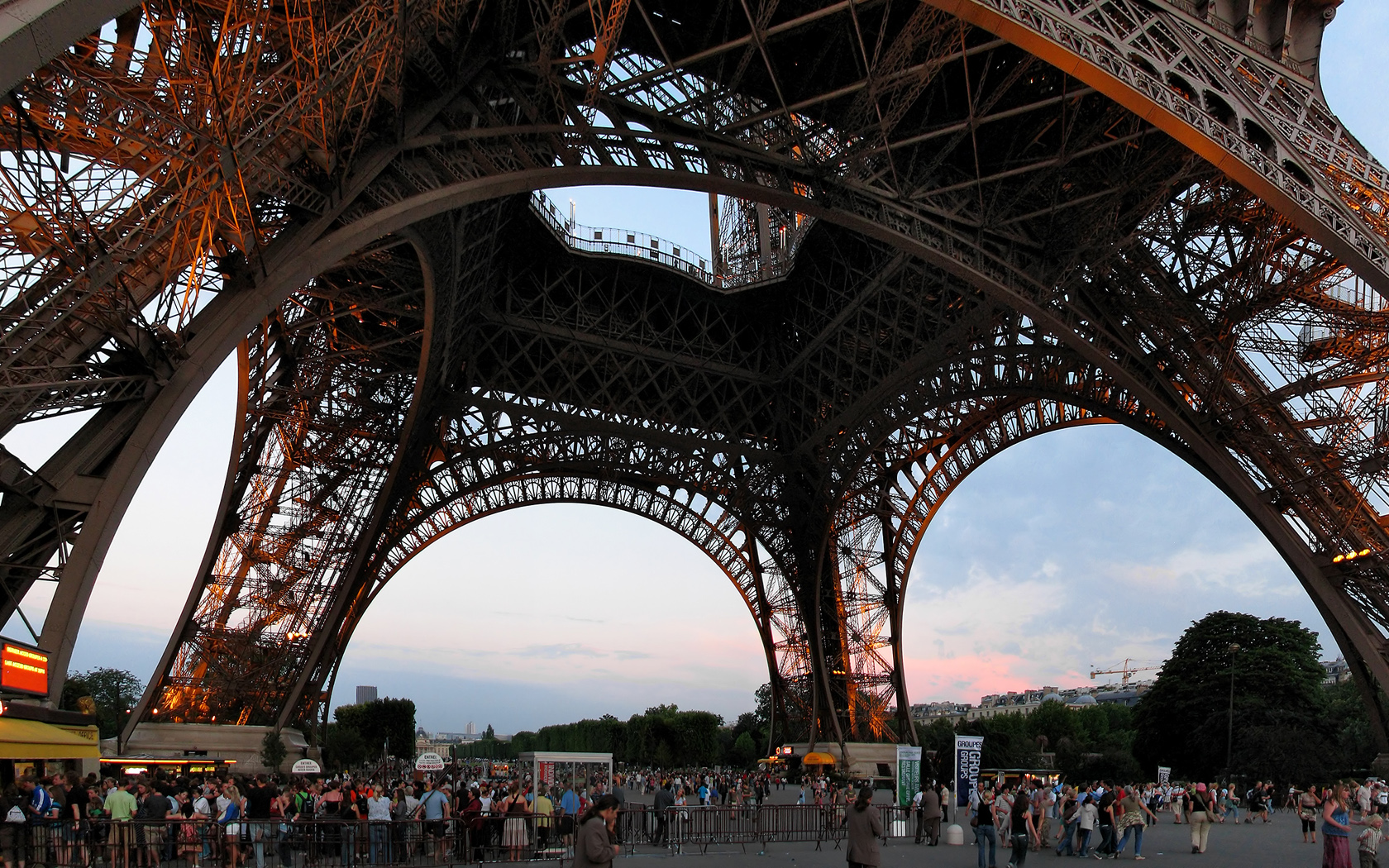 Panorama under the Eiffel Tower at sunset.